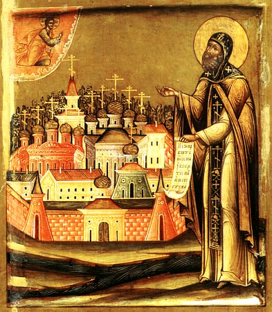 Saint Pafnutius of Borovsk, Russian Orthodox saint of Tatar descent, hegumen and wonder-worker, founder of Pafnutius-Borovski monastery.